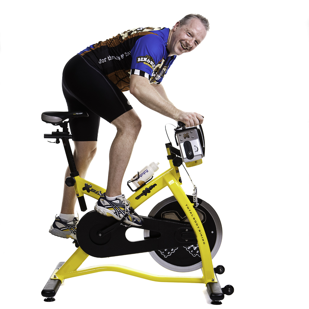 Typical fixed wheel ergonomically adjustable indoor bike